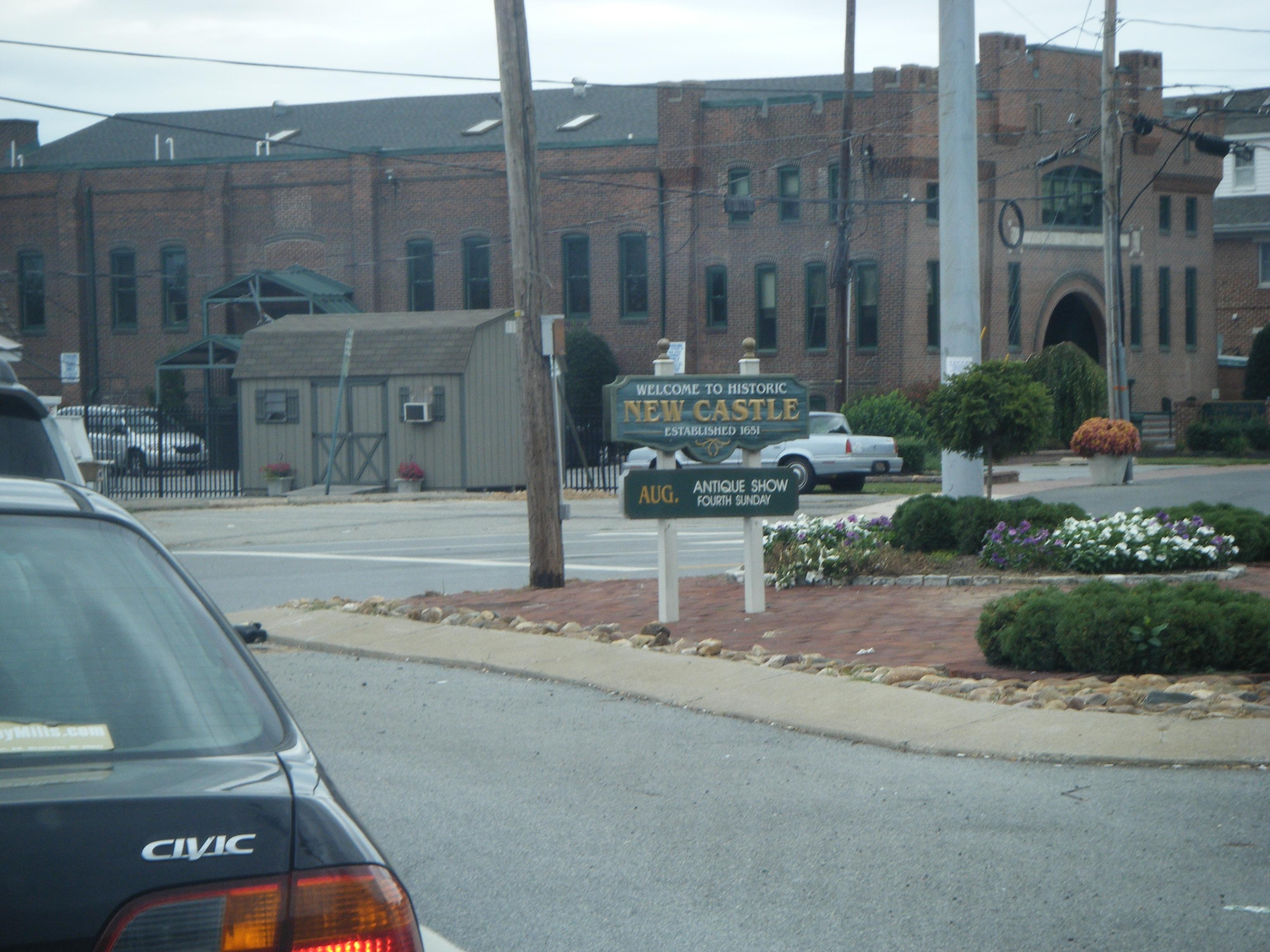 Welcome to New Castle sign on Delaware Street in New Castle, Delaware.